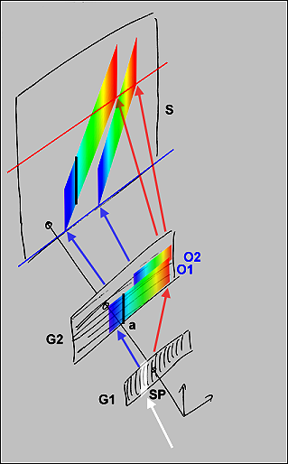 Principle of echelle spectrograph (draft) G1, G2 – diffraction grating S – Spectrum